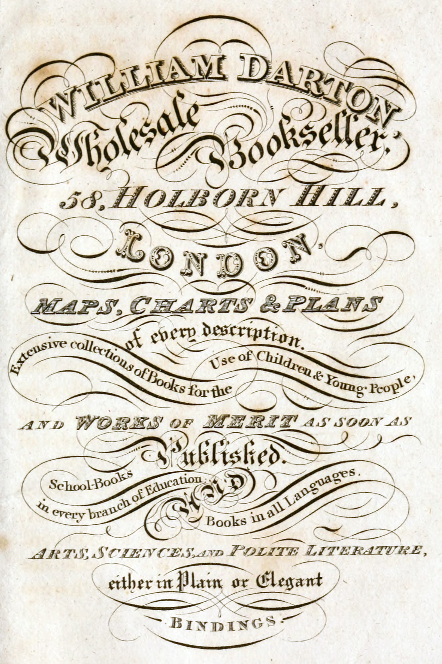 London publisher William Darton's advertisement, from A Mother's Care Rewarded